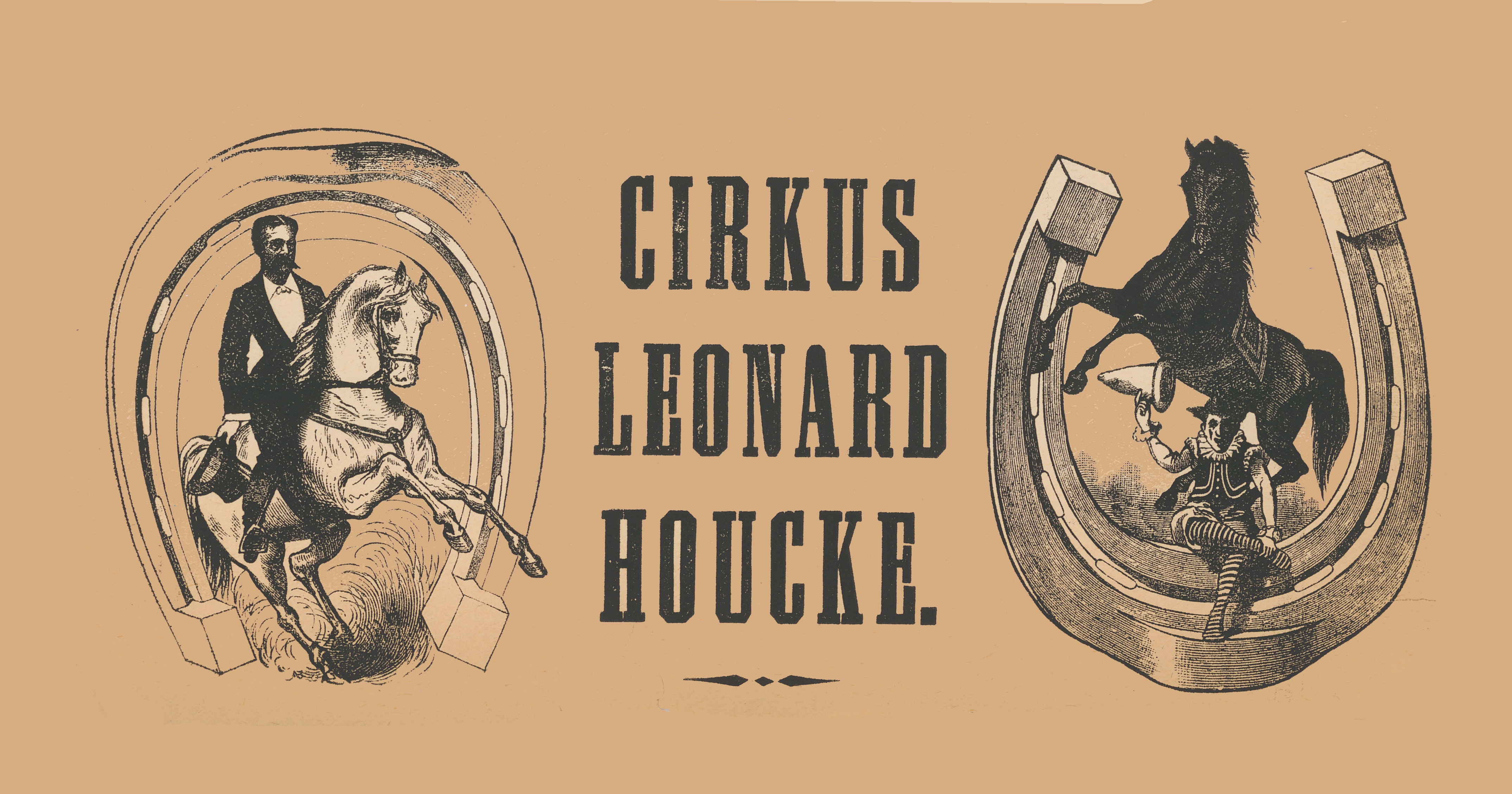 Poster for Circus Leonard Houcke in Sweden